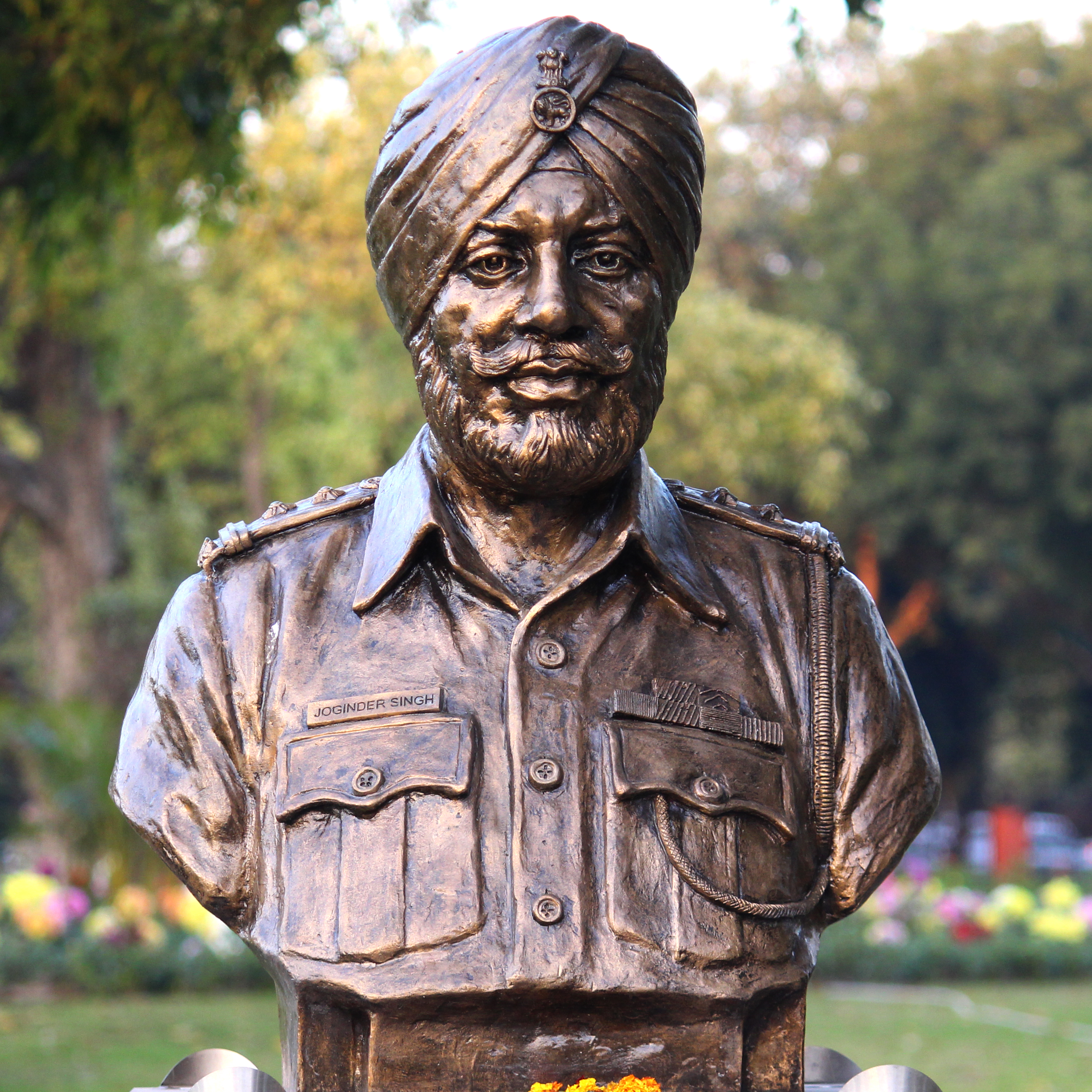 Subedar Joginder Singh's statue at Param Yodha Sthal (section for Param Vir Chakra recipients), National War Memorial, New Delhi.